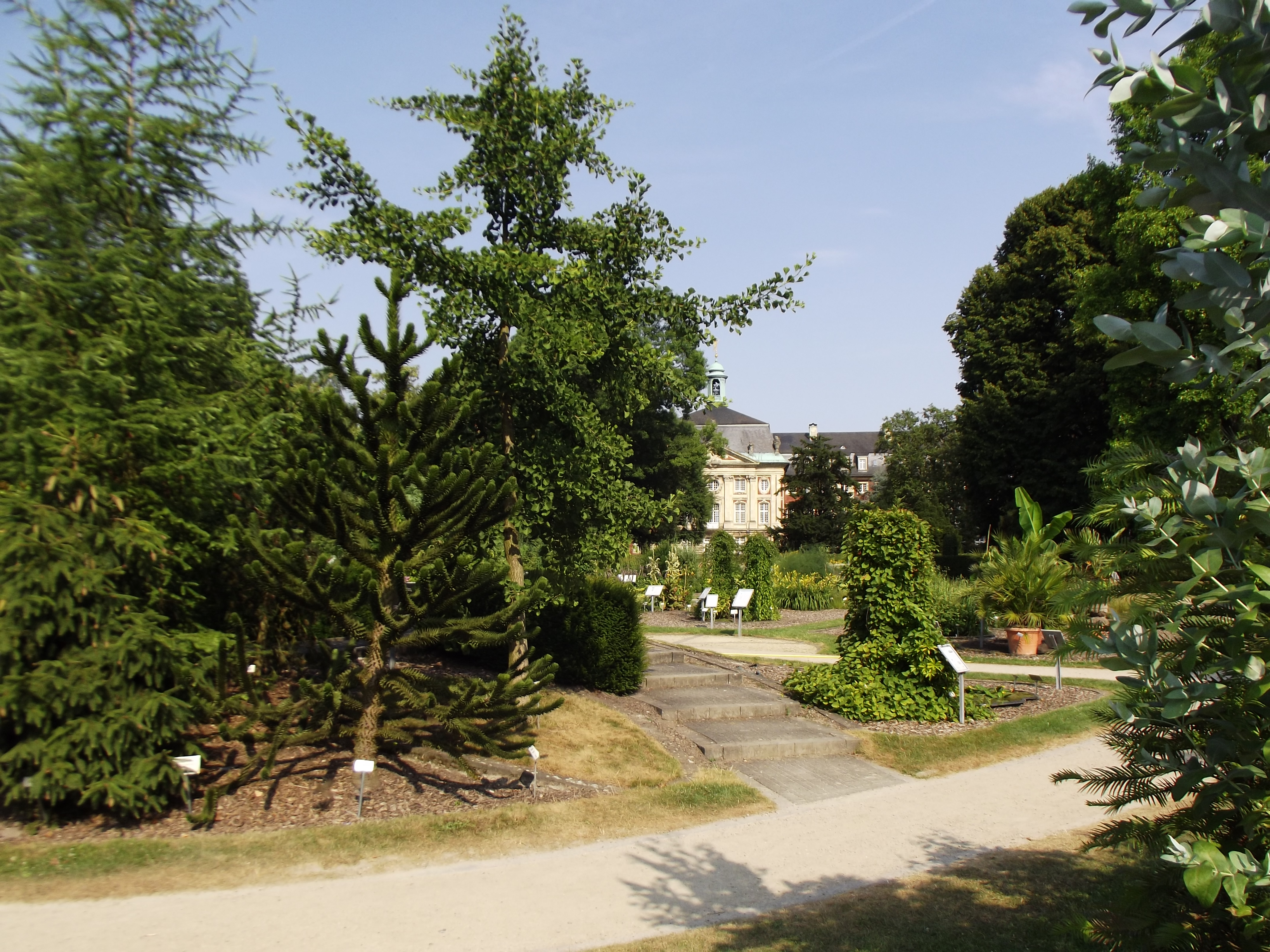 The pic proves that the garden is indeed right behind the Castle